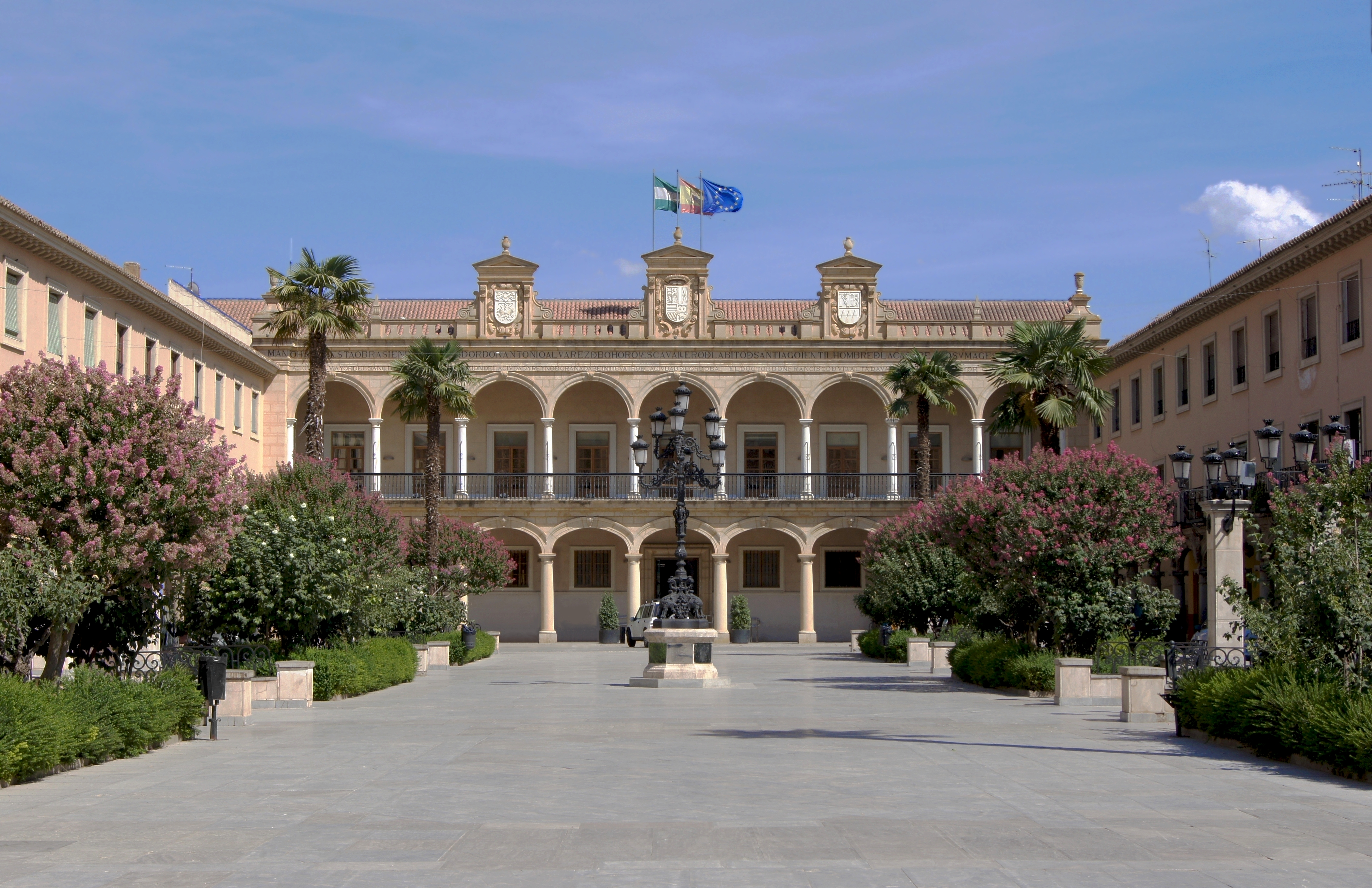 City hall of Guadix, Plaza de la Constitución, Granada, Spain